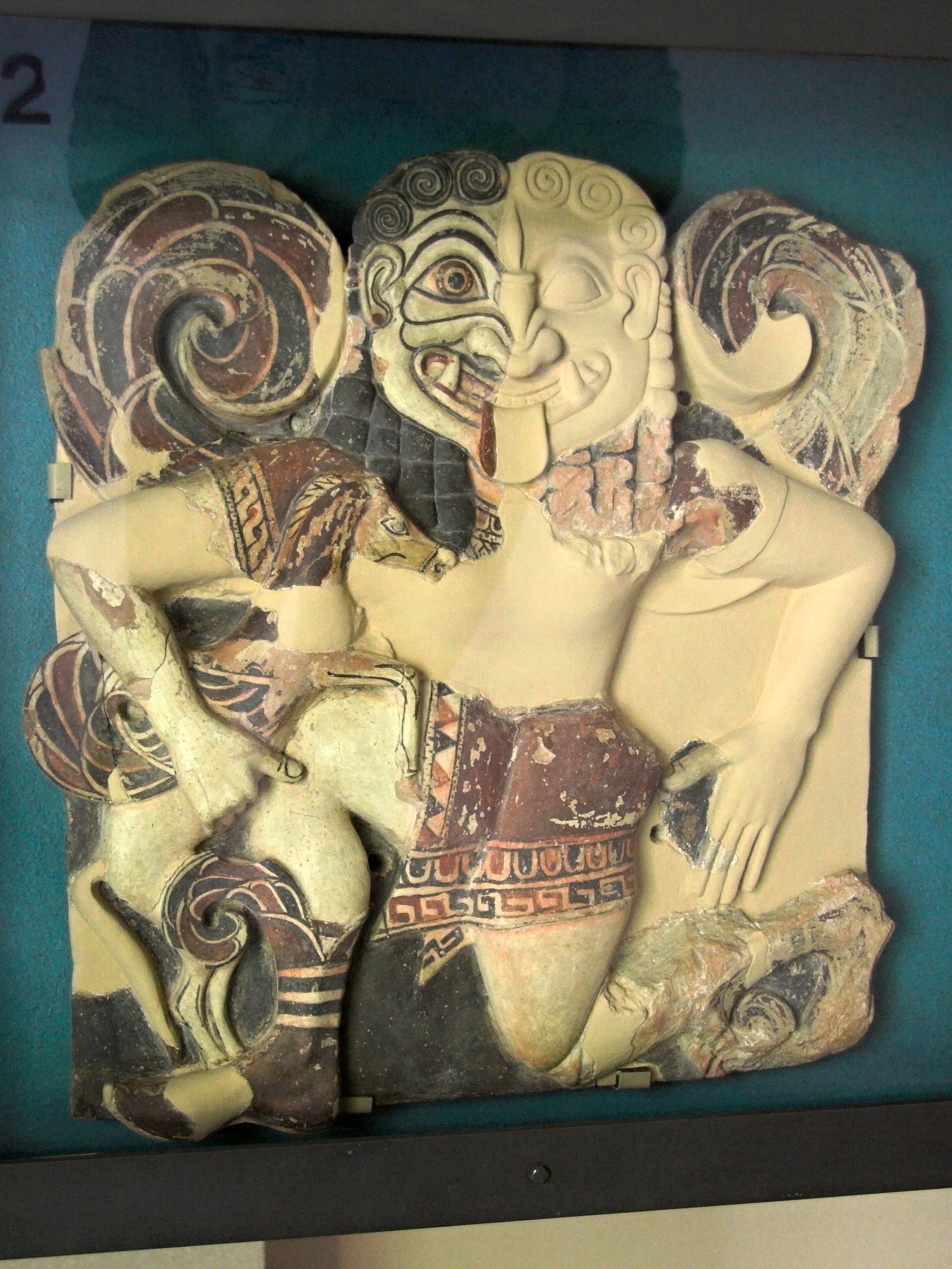 Terracotta plaque with a Gorgo running in the schematic archaic manner. Metope for a small proto-archaic bilding in the sanctuary. Syracuse, Via Minerva, 620-600 BC. Archaeological Museum of Syracuse.